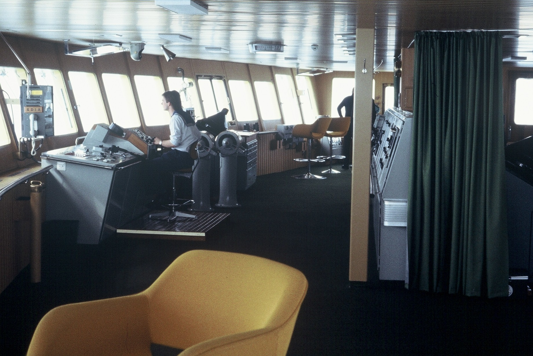 Control bridge Swedish icebreaker Ymer 1978